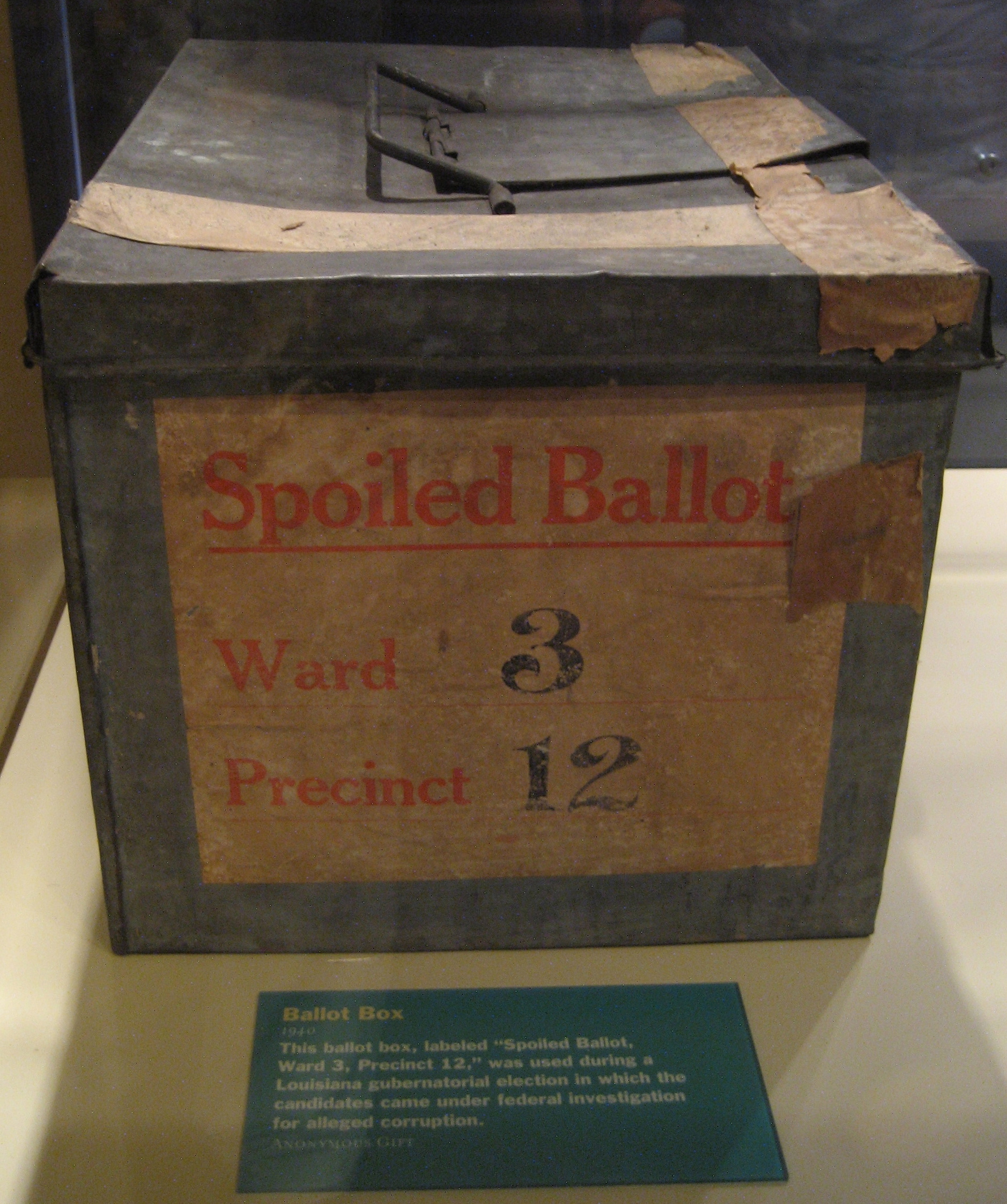 Louisiana State Museum, Baton Rouge, Louisiana. 1940 ballot box labeled "Spoiled" from election fraud investigation.